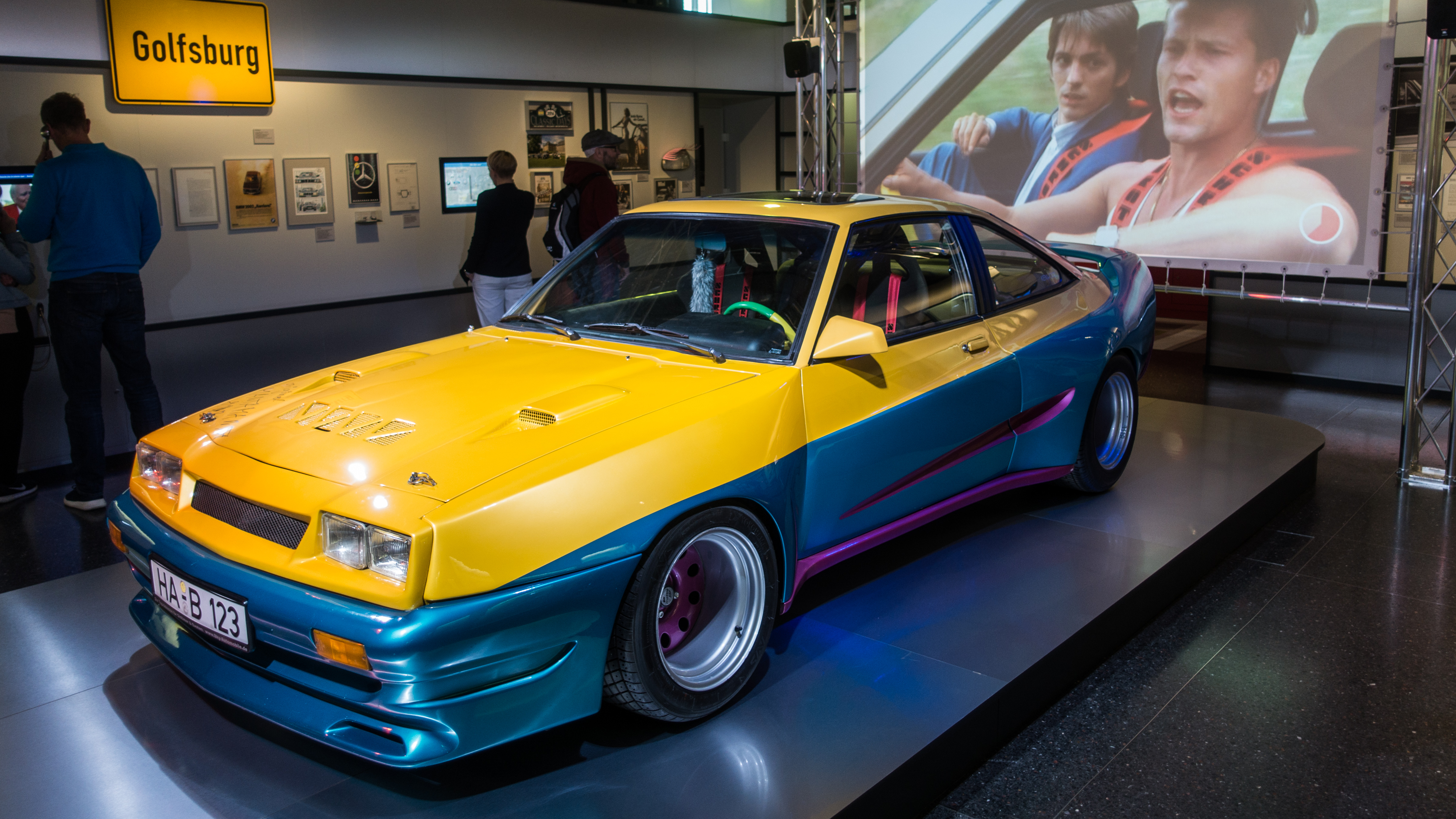 Opel Manta B from the Film "Manta, Manta" at the "Haus der Geschichte" in Bonn, Germany